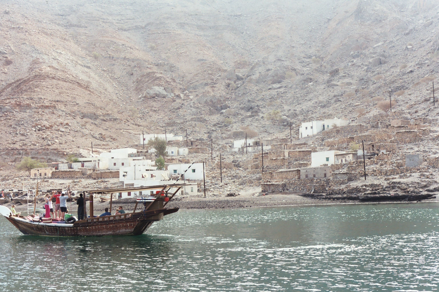 Bukha Village, west coast of Musandam Peninsula, northern Oman